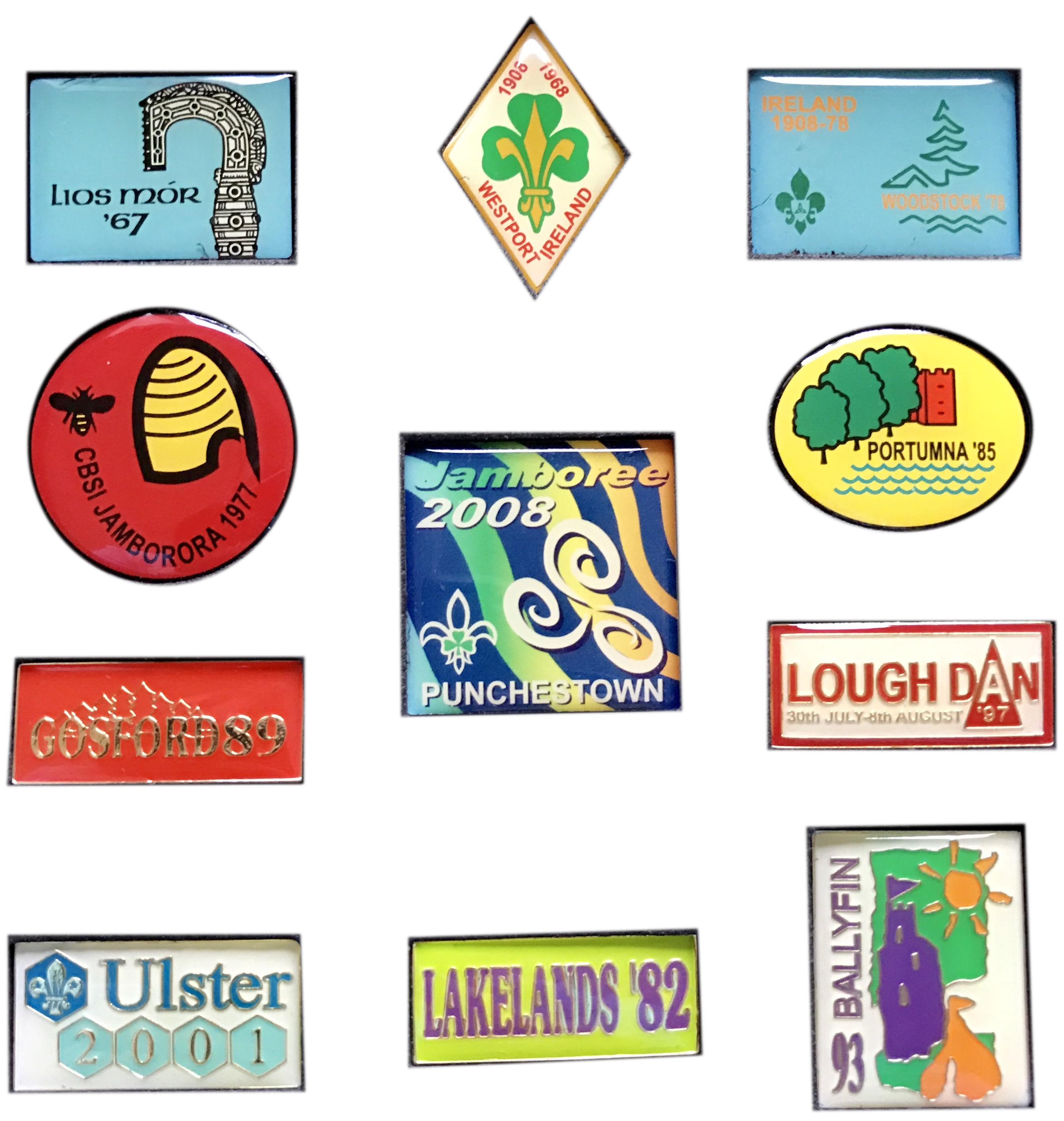 Image of Irish Scout Jamboree pins and artwork